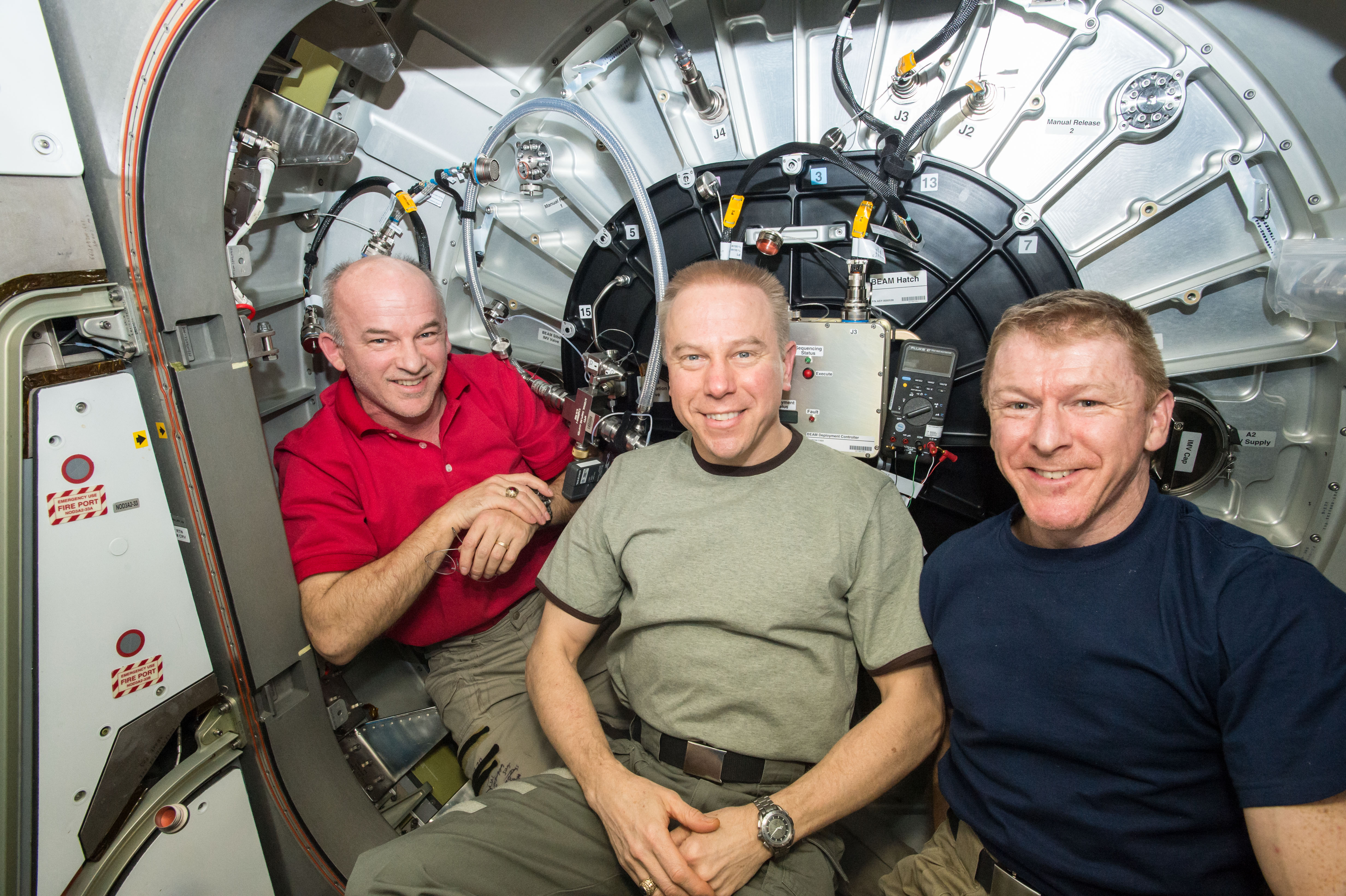 Expedition 47 astronauts Jeff Williams (left) and Timothy Kopra (middle) of NASA, along with ESA (European Space Agency) astronaut Timothy Peake (right) pose in front of the entrance to the Bigelow Expandable Activity Module (BEAM) after successful expansion. NASA Astronaut Jeff Williams and the NASA and Bigelow Aerospace teams working at Mission Control Center at NASA's Johnson Space Center spent more than seven hours on operations to fill the BEAM with air to cause it to expand.